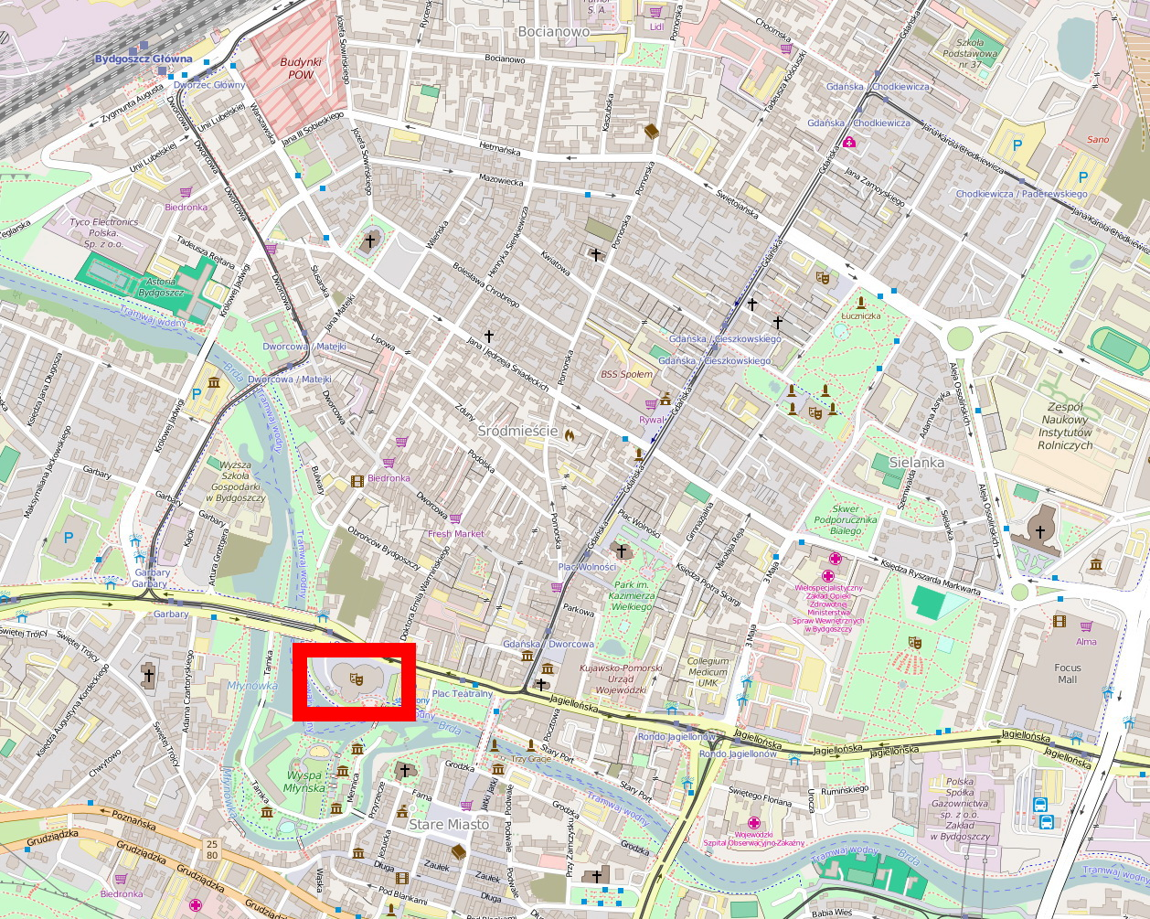 Location of Opera Nova on a map